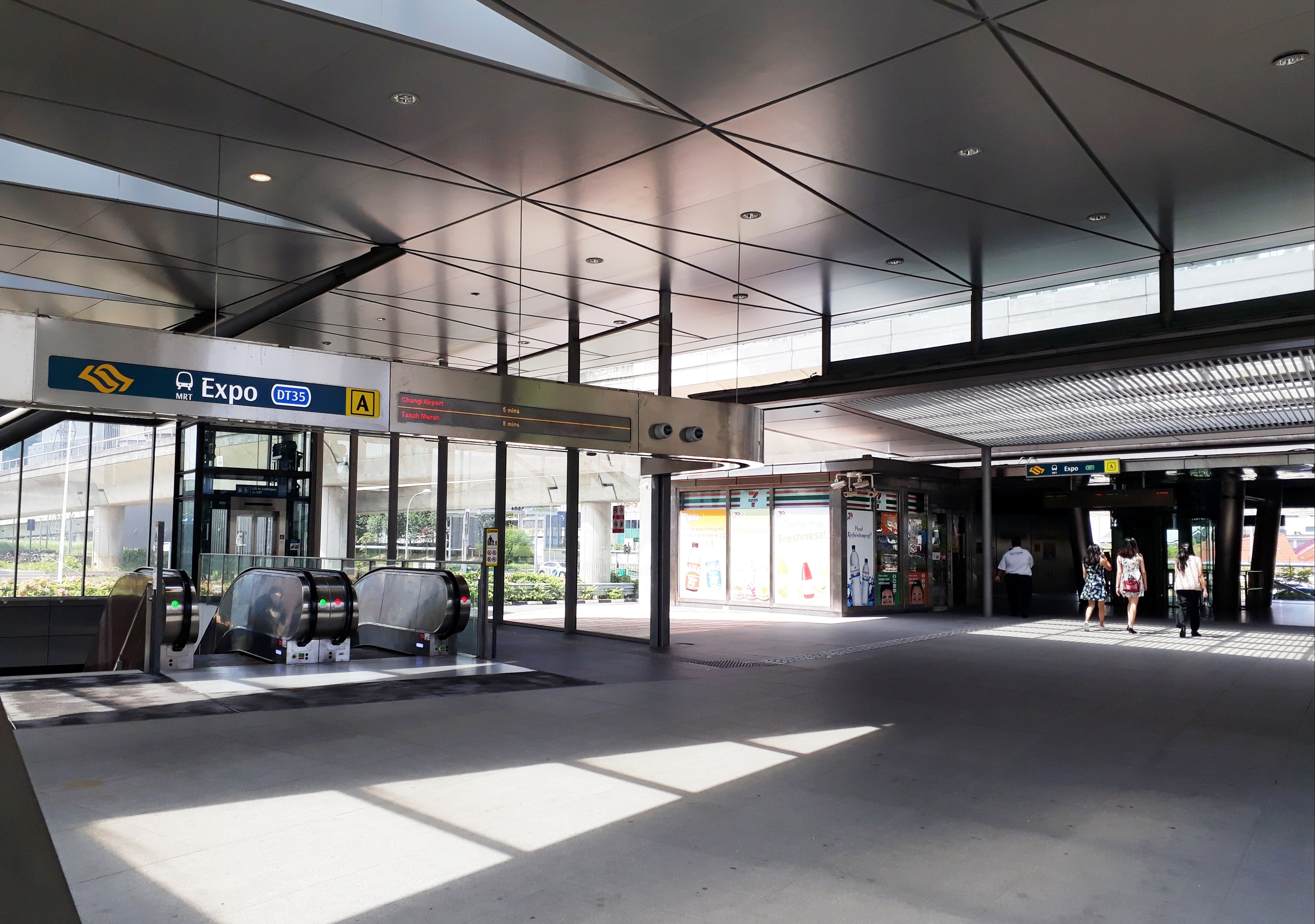 Exit A of Expo station